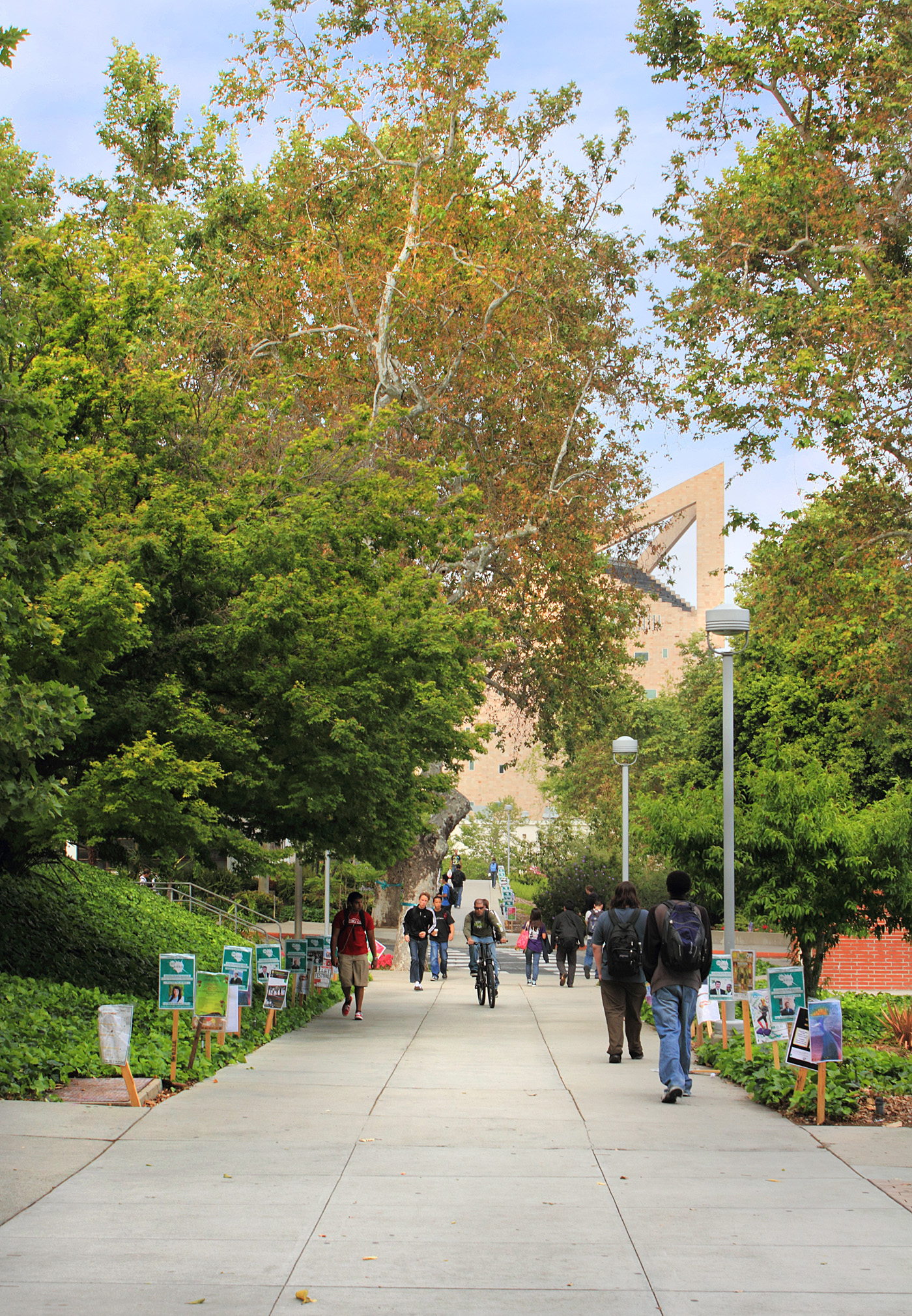 The walkway from the central quad to the engineering meadow and CLA building.